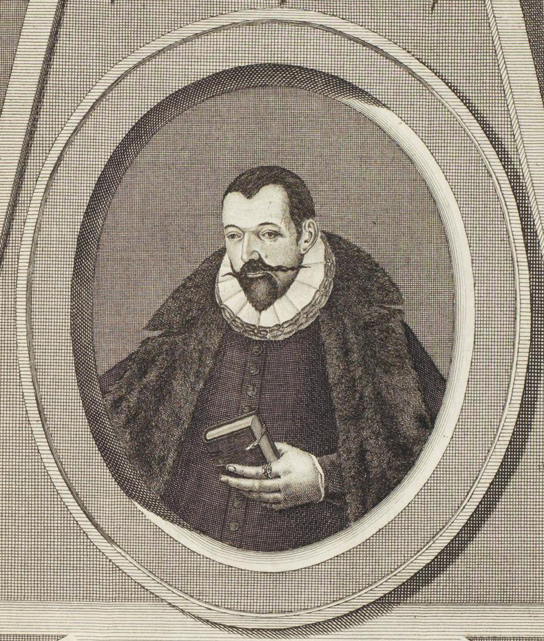 Engraved portrait of Heinrich Camerarius, in: in: Monumenta inedita rerum Germanicarum praecipue Cimbriacarum et Megapolensium : quibus varia antiquitatum, historiarum, legum iuriumque Germaniae, speciatim Holsatiae et Megapoleos vicinarumque regionum argumenta illustrantur, supplentur et stabiliuntur ; cum tabulis aeri incisis / e codicibus ... studuit ... et cum praefatione instruxit Ernestus Joachimus de Westphalen .. Band 3, Lipsiae: Martin 1741